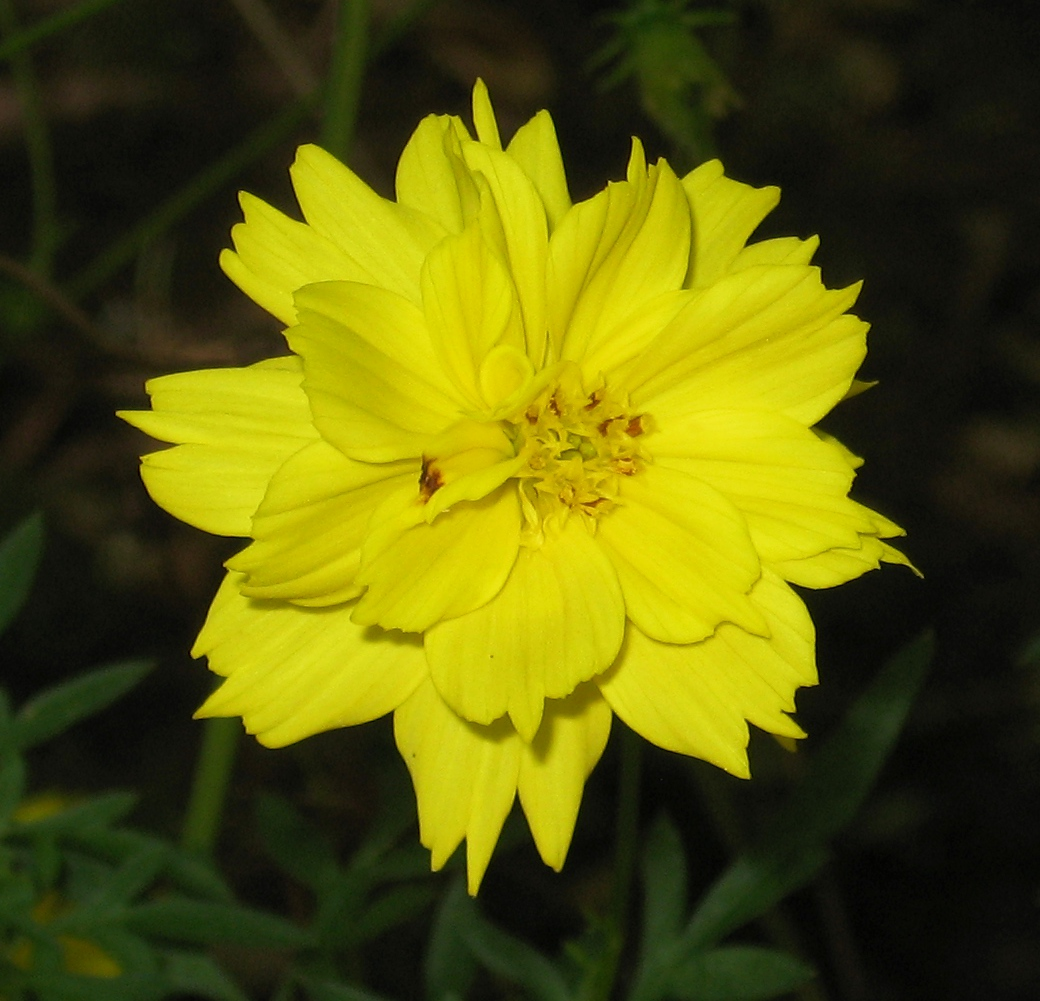 An unidentified yellow flower in Mangunharjo, Yogyakarta